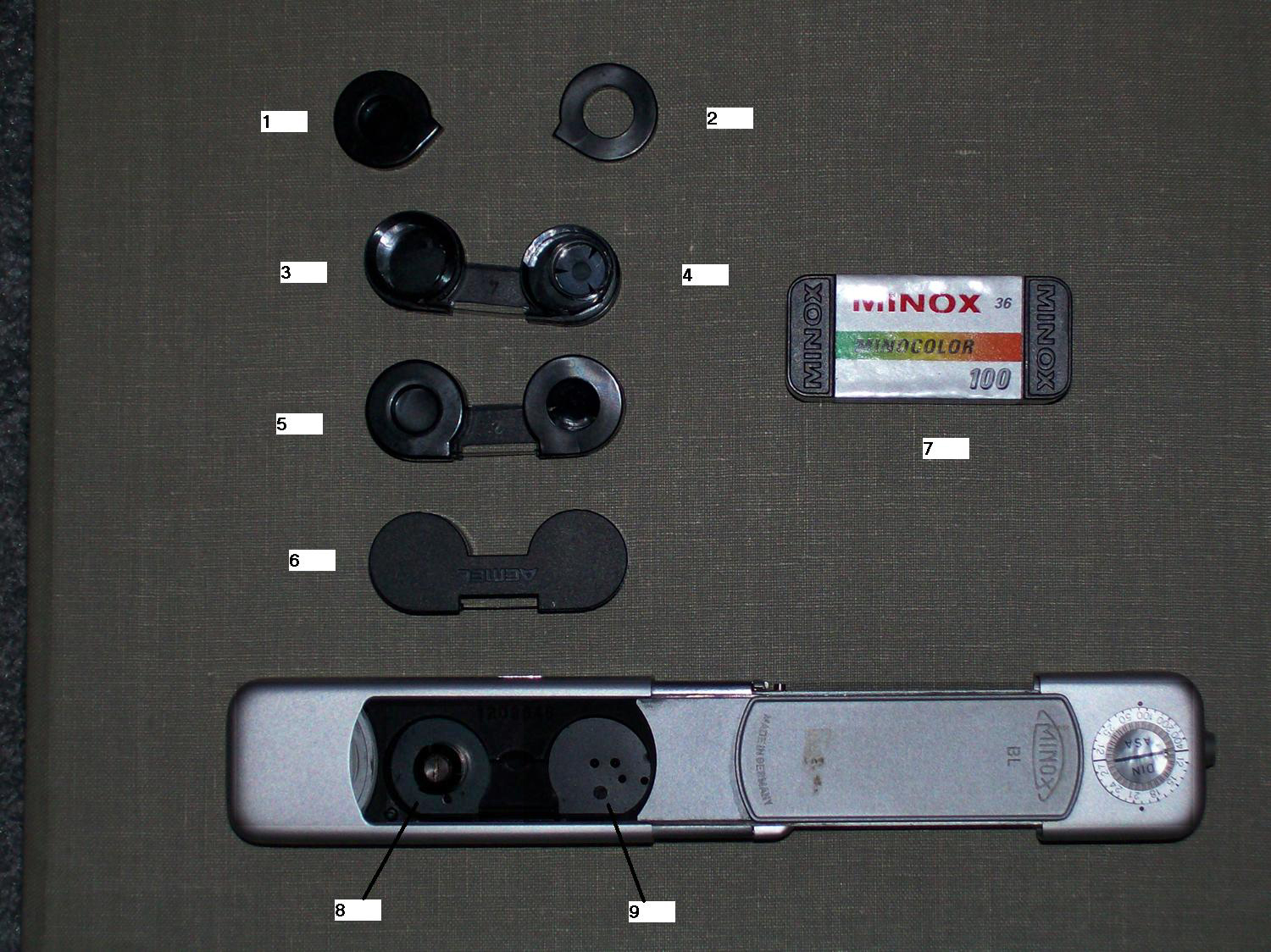 Minox film cassette 1 supply side cap 2 take up side cap 3 supply chamber with rolled up Minox film strip 4 three tooth take up spool 5 film cassette with caps in place 6 Minox film ready for load 7 Minox film cassett box 8 three tooth takeup spindle of Minox BL 9 Supply side cavity